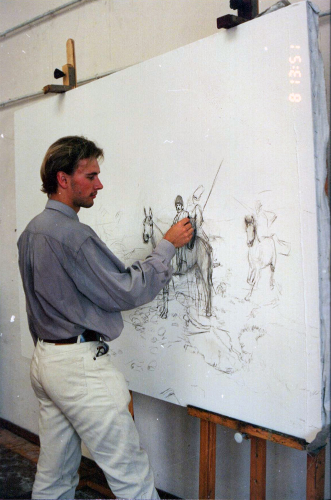 Simon Kozhin in the process of creating a historical picture of the Rubicon. Crossing the order of Denis Davydov across a river. 1812. In historical painting workshop at the Russian Academy of Painting, Sculpture and Architecture named after I.S. Glazunov. Moscow. Street Myasnitskaya 21.